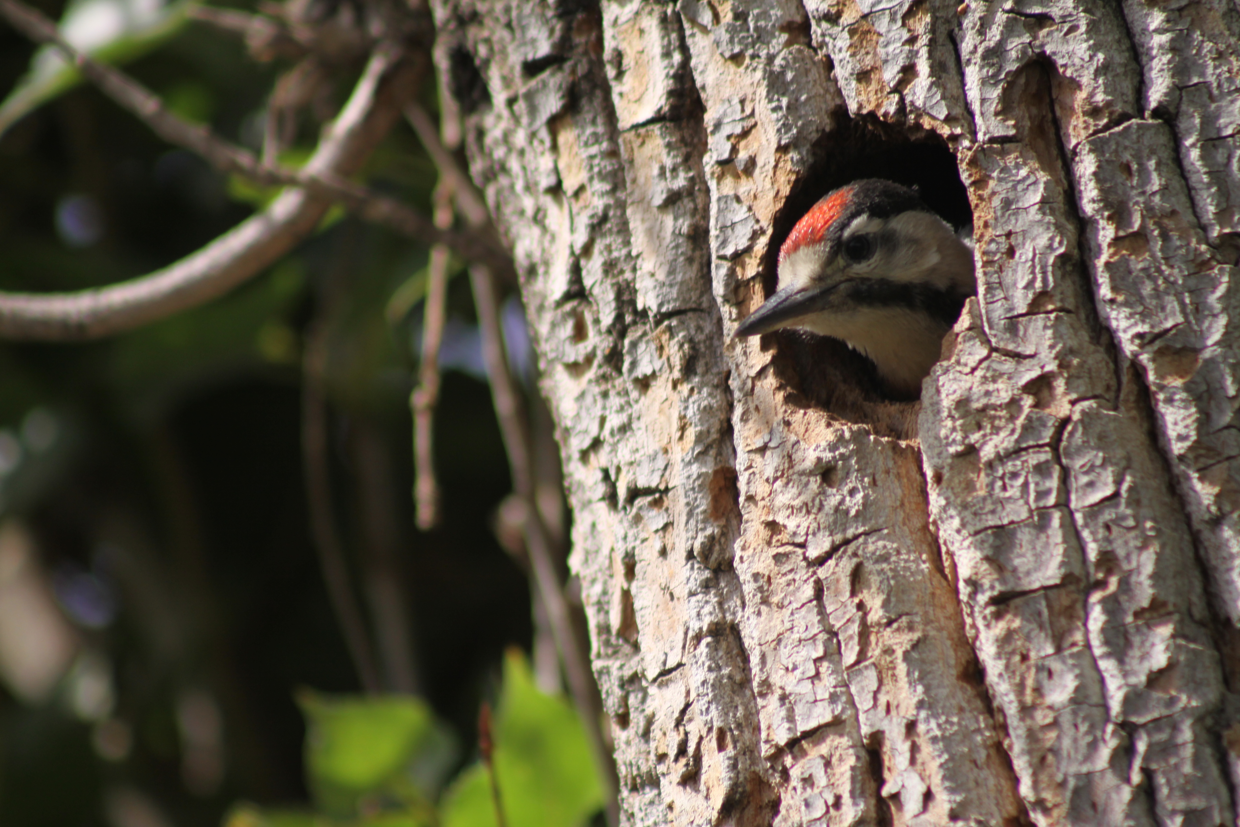 Syrian Woodpecker (Dendrocopos syriacus) - peeking out of it's hole (nest). Shot taken at Jerusalem, Israel.